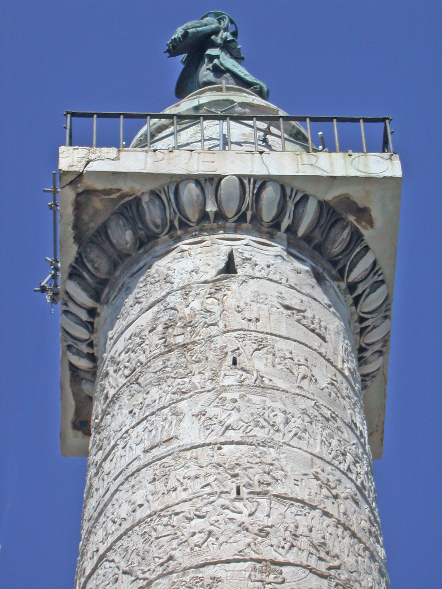 A statue of Saint Peter was placed by Pope Sixtus V in 1588 on top of Trajan's column in Rome. Rome, Trajan's Forum. Personal photo (september 2005) by MM in it.wiki.